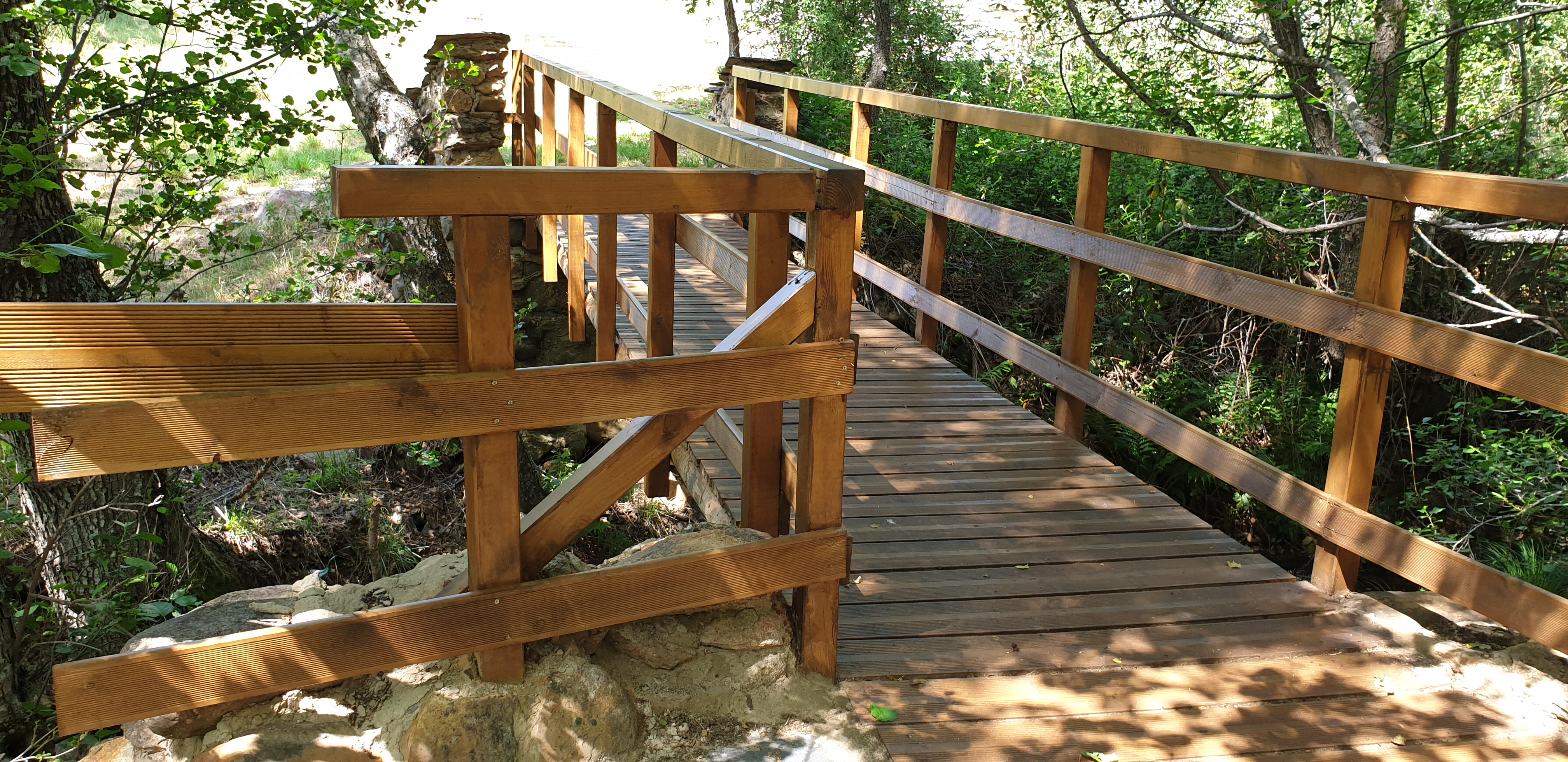 Puente de "el Pisón" en Valdavido